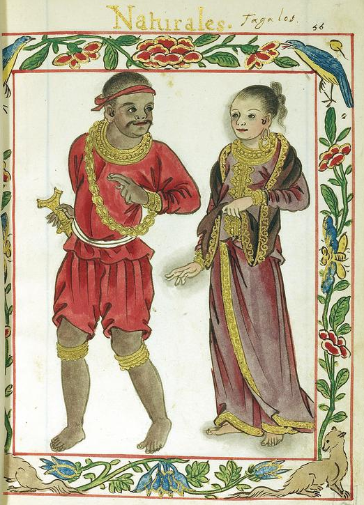 Native Royalties in Pre-hispanic Philippine Archipelago